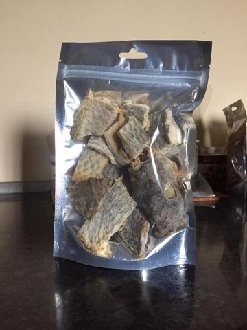 Koobi